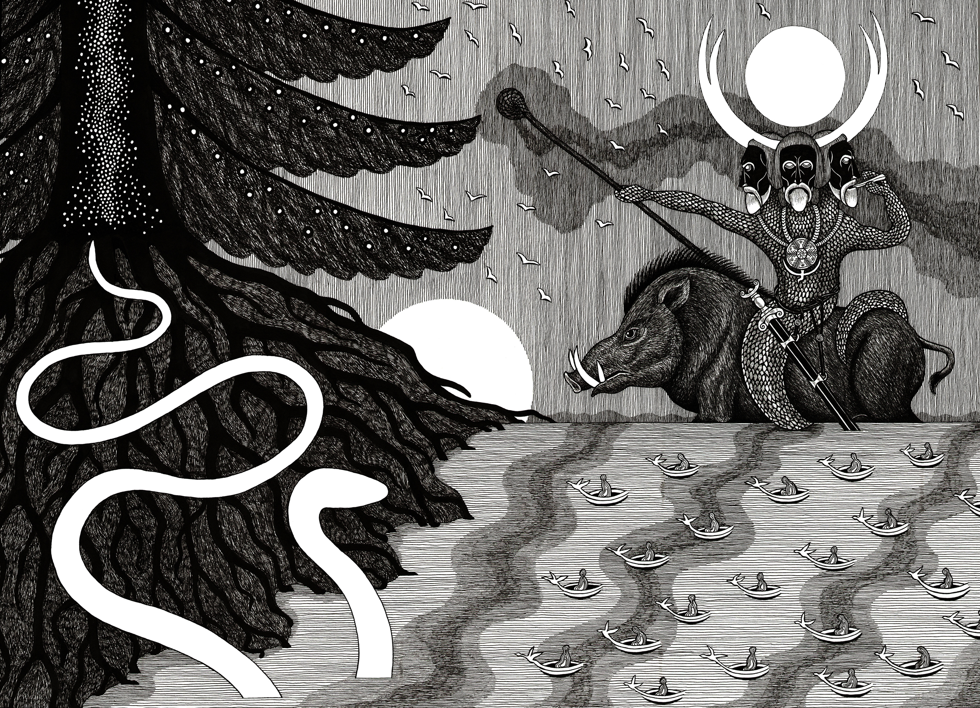 The god Nyja is leading souls to the Underworld.